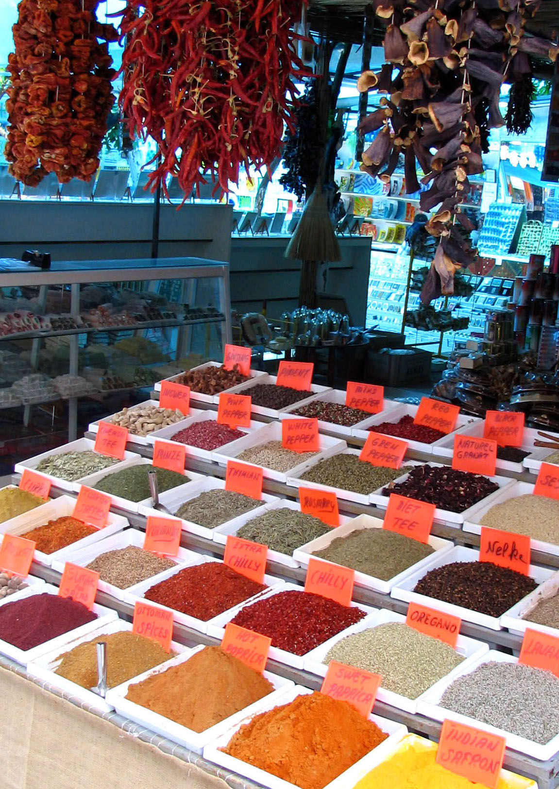 Spices in market on way to Antalya harbour, Turkey. May 2006. Photo by Winstonza talk